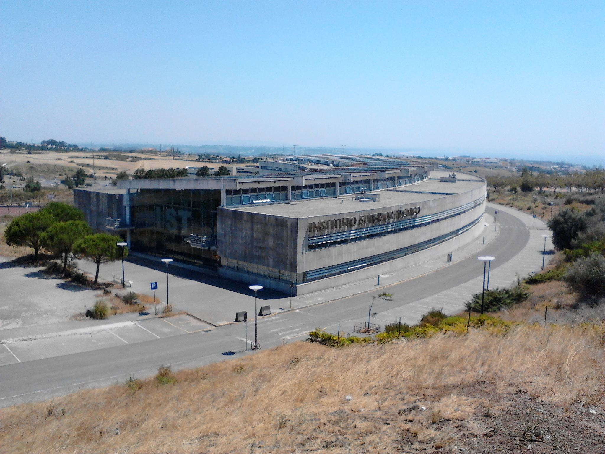 Instituto Superior Técnico at Taguspark from other perspective